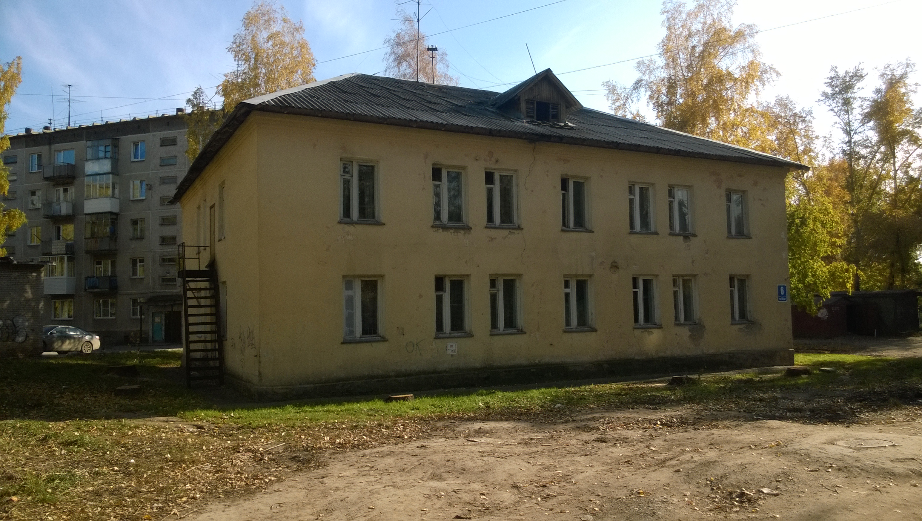 Nagornaya street in Novosibirsk.